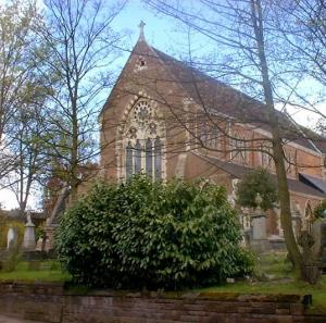 St Mary the Virgin Acocks Green